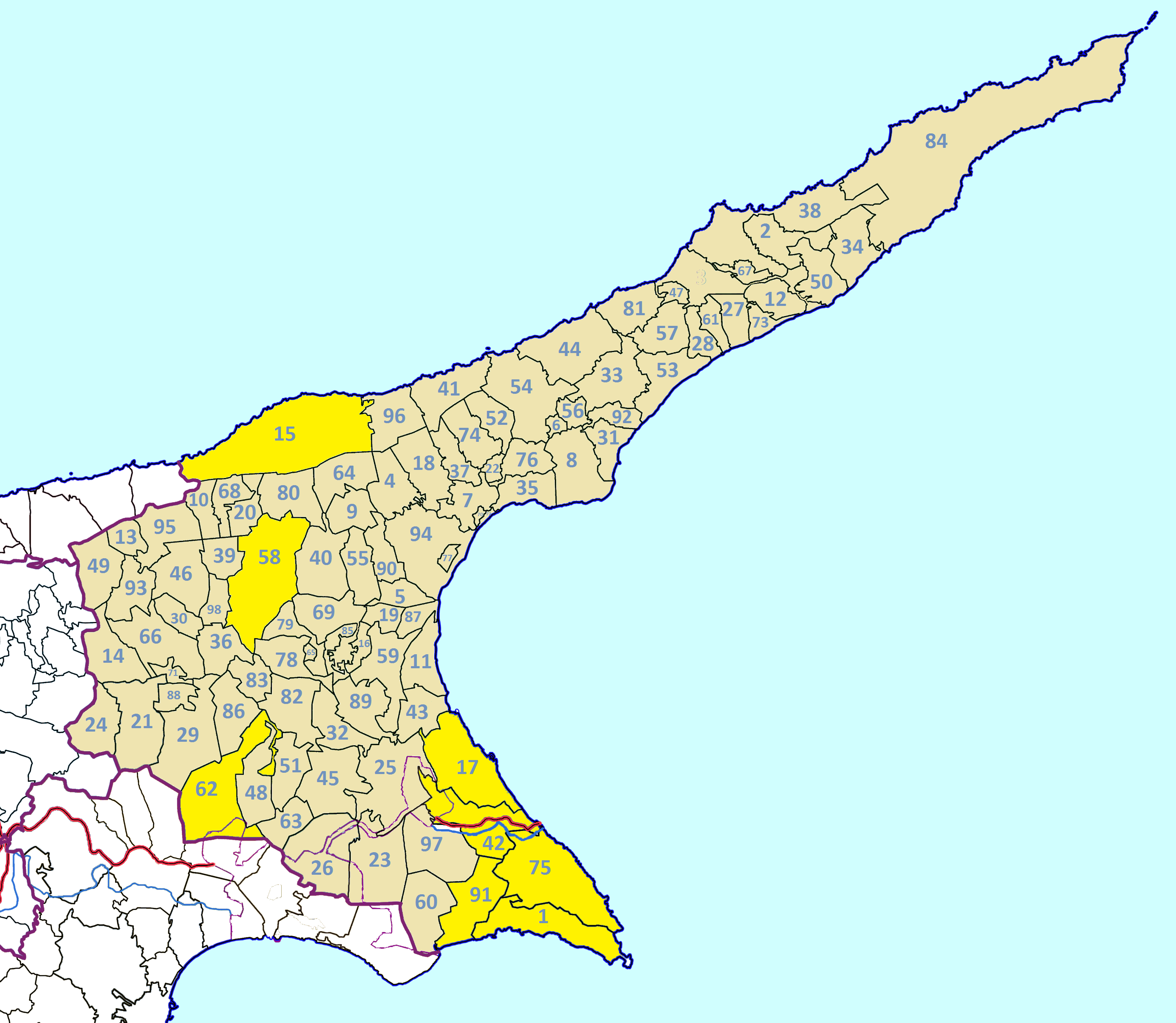 The municipalities and the communities of Famagusta District (De jure) (the list is based on Greek alphabet).